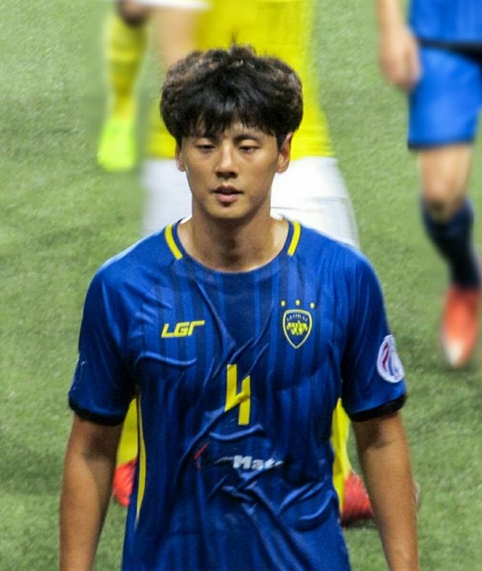 Jeongmin Lee, a South Korean professional footballer who plays for the Philippines Football League